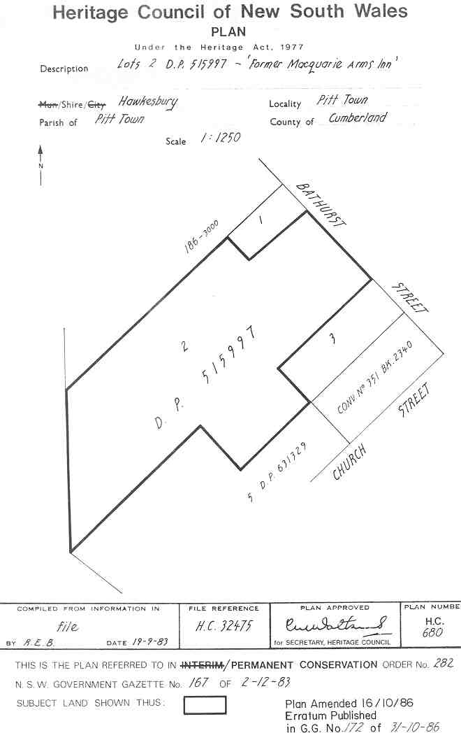 Macquarie Arms Inn: PCO Plan Number 282